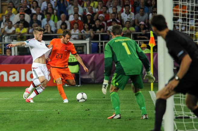 UEFA Euro 2012 match between Netherlands and Denmark that took place in Kharkiv. Final result was 0:1 (Krohn-Delhi)